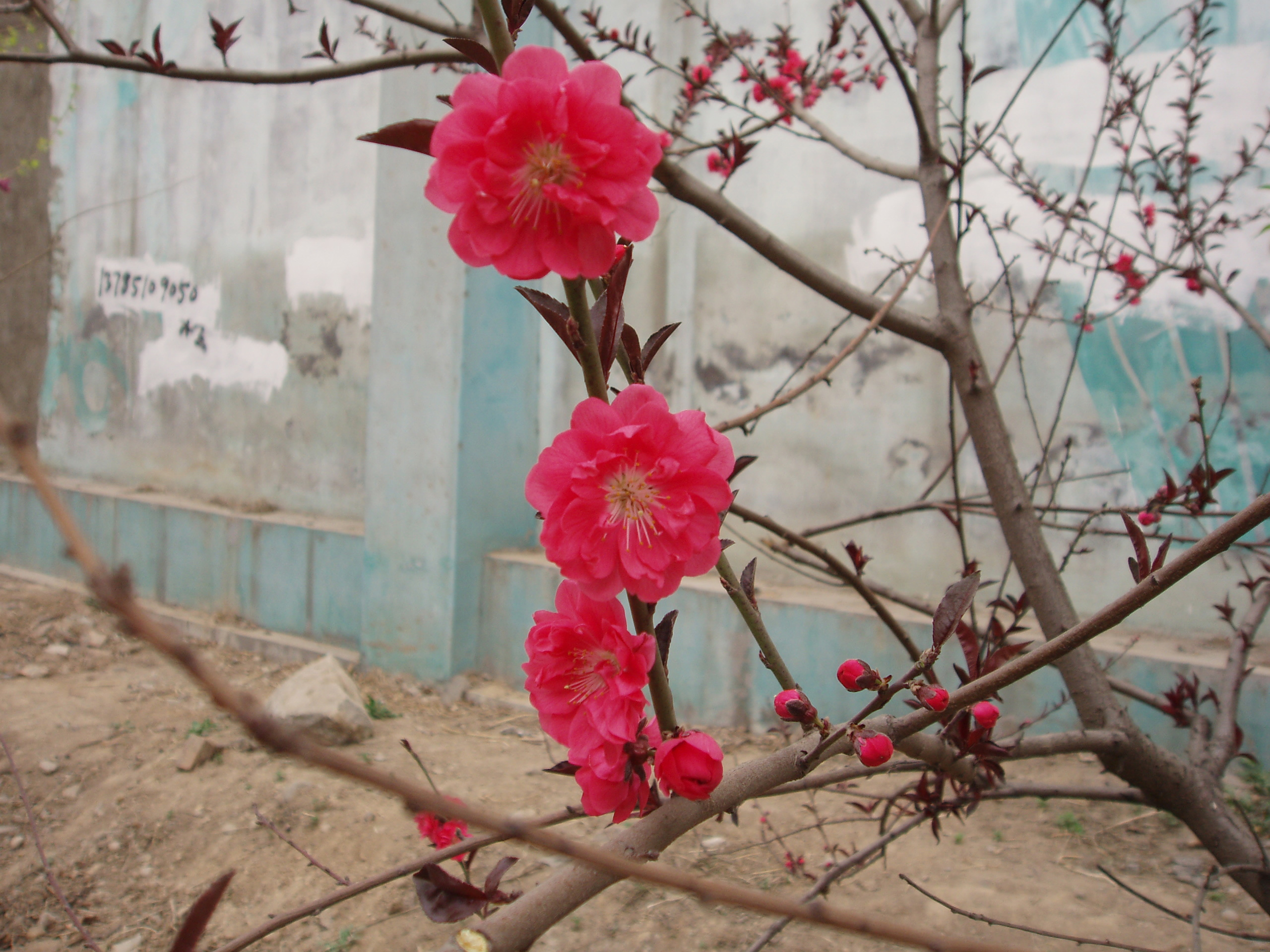 Peach flowers